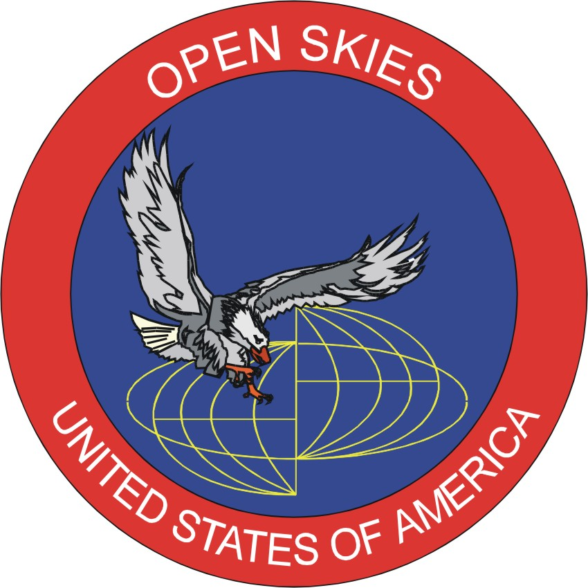 Patch/emblem of the U.S. Air Force OC-135 Open Skies aircraft.